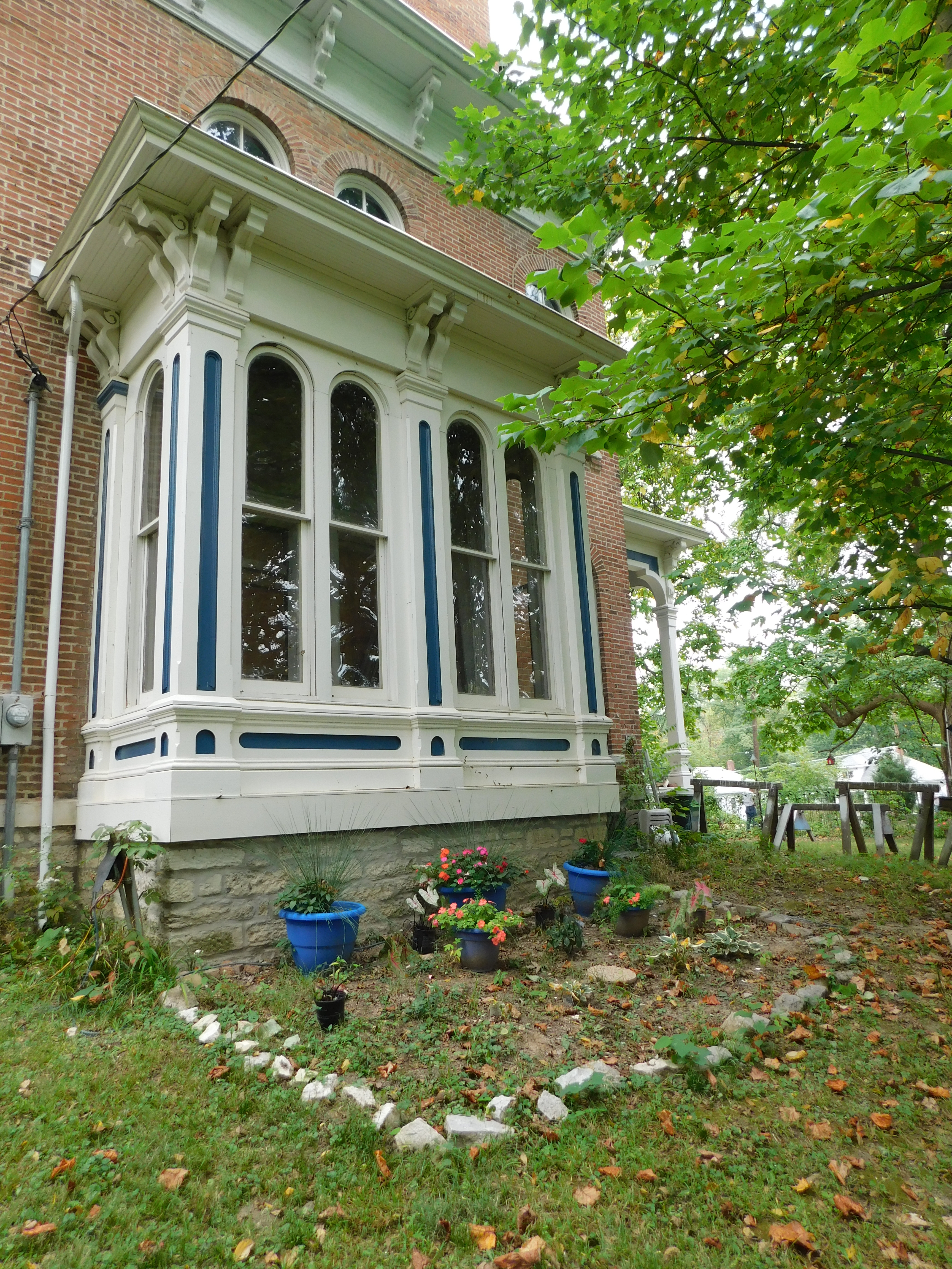 Conservatory on historic McPike Mansion. September 2017.